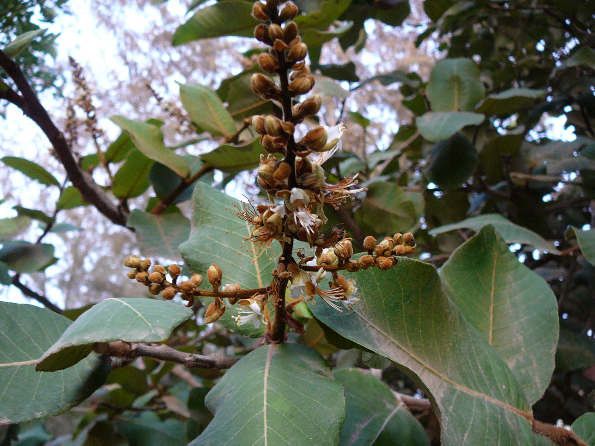 Neocarya macrophylla